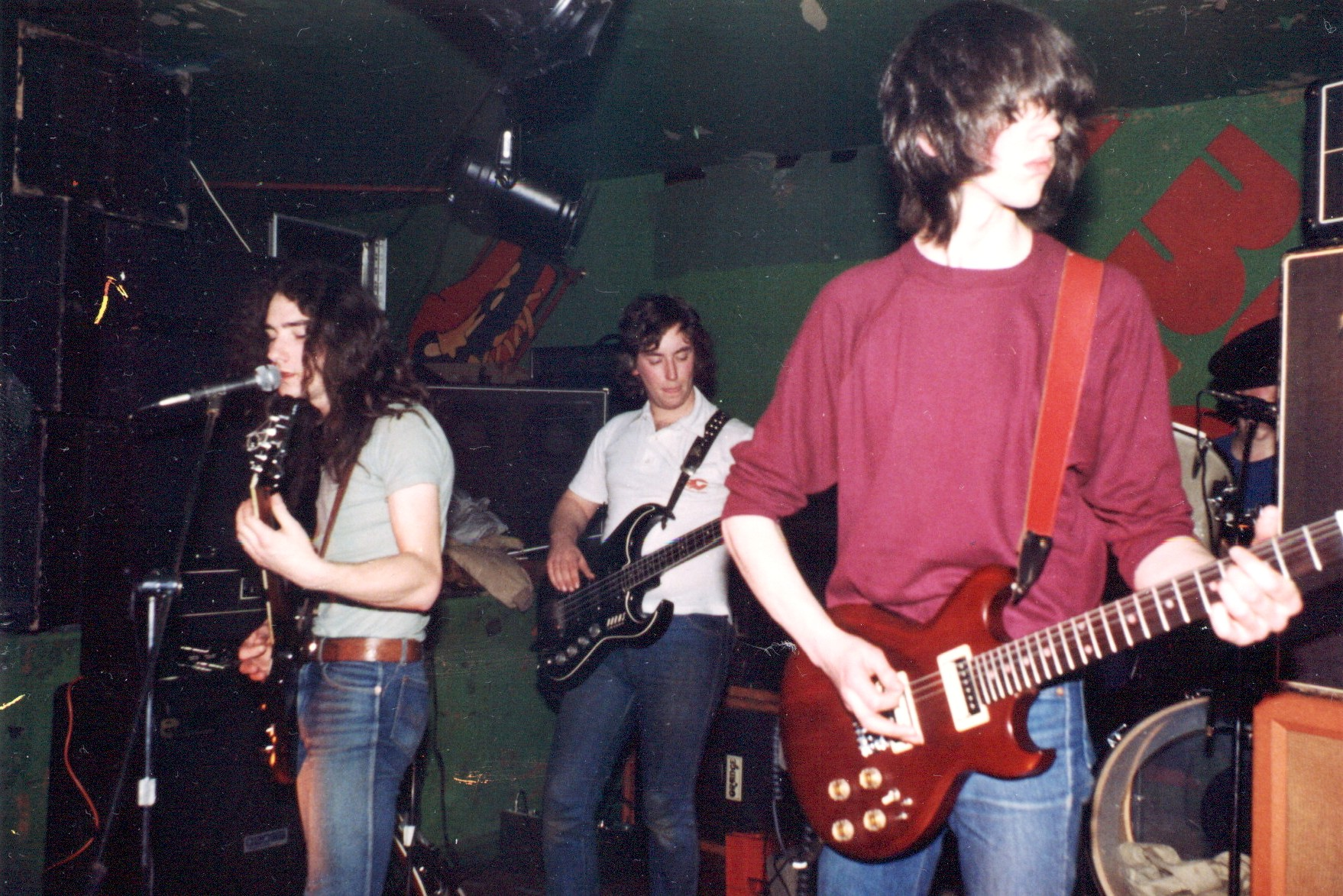 Burns Howff, Exorian, 1982